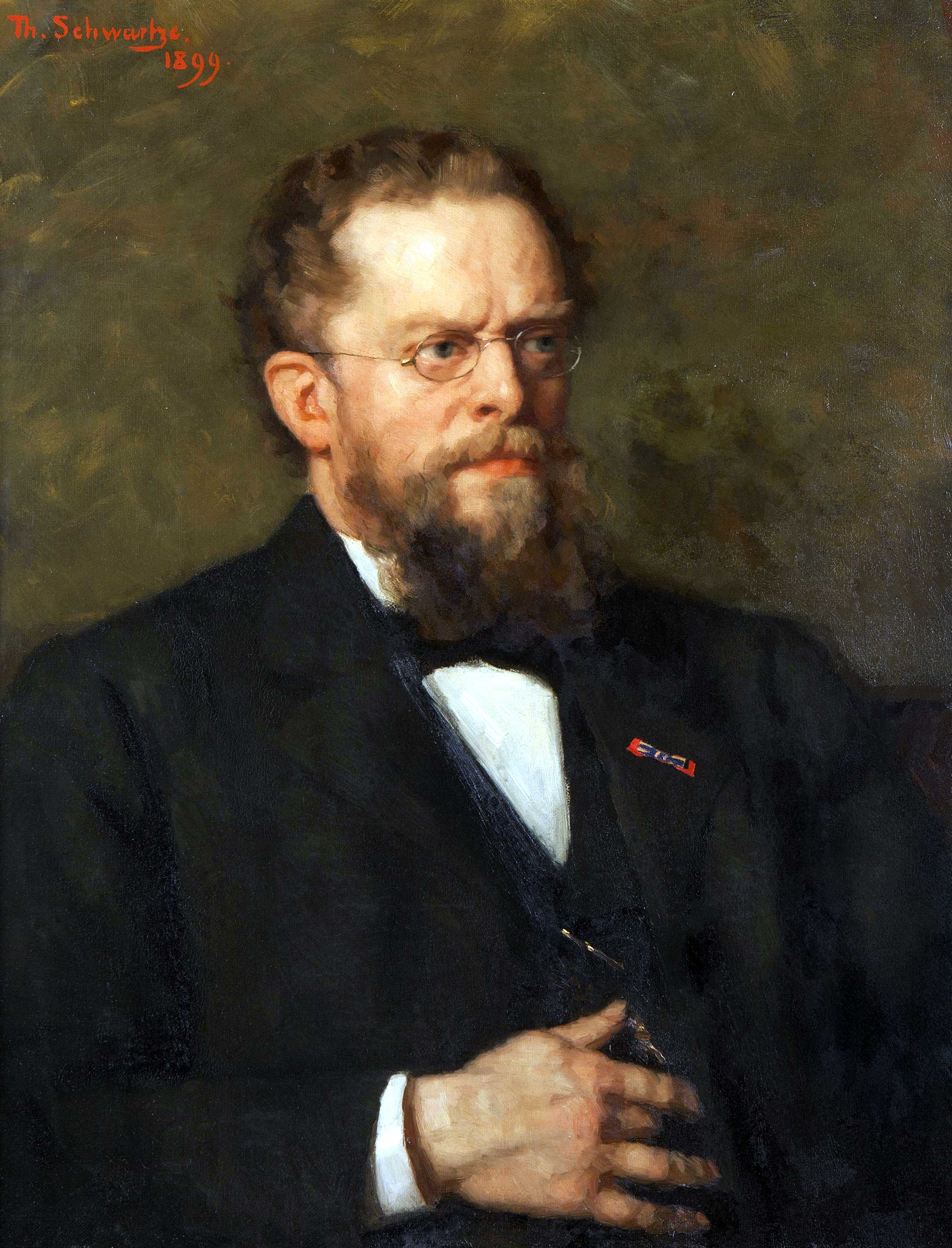 Antoine Paul Nicolaas Franchimont (1844-1919), Leiden professor (chemistry), painting (1899) by Therese Schwartze (1851-1918)